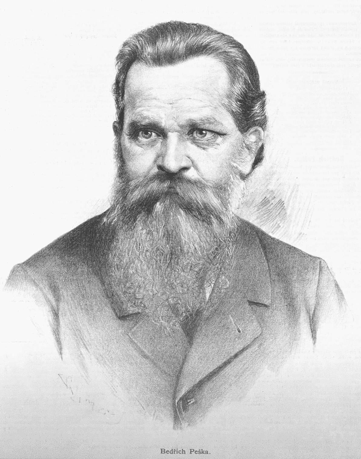 Portrait of Bedřich Peška, Czech poet